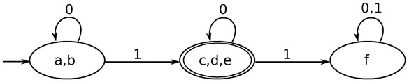 A minimized deterministic finite state automaton, obtained from File:DFA to be minimized.jpg.